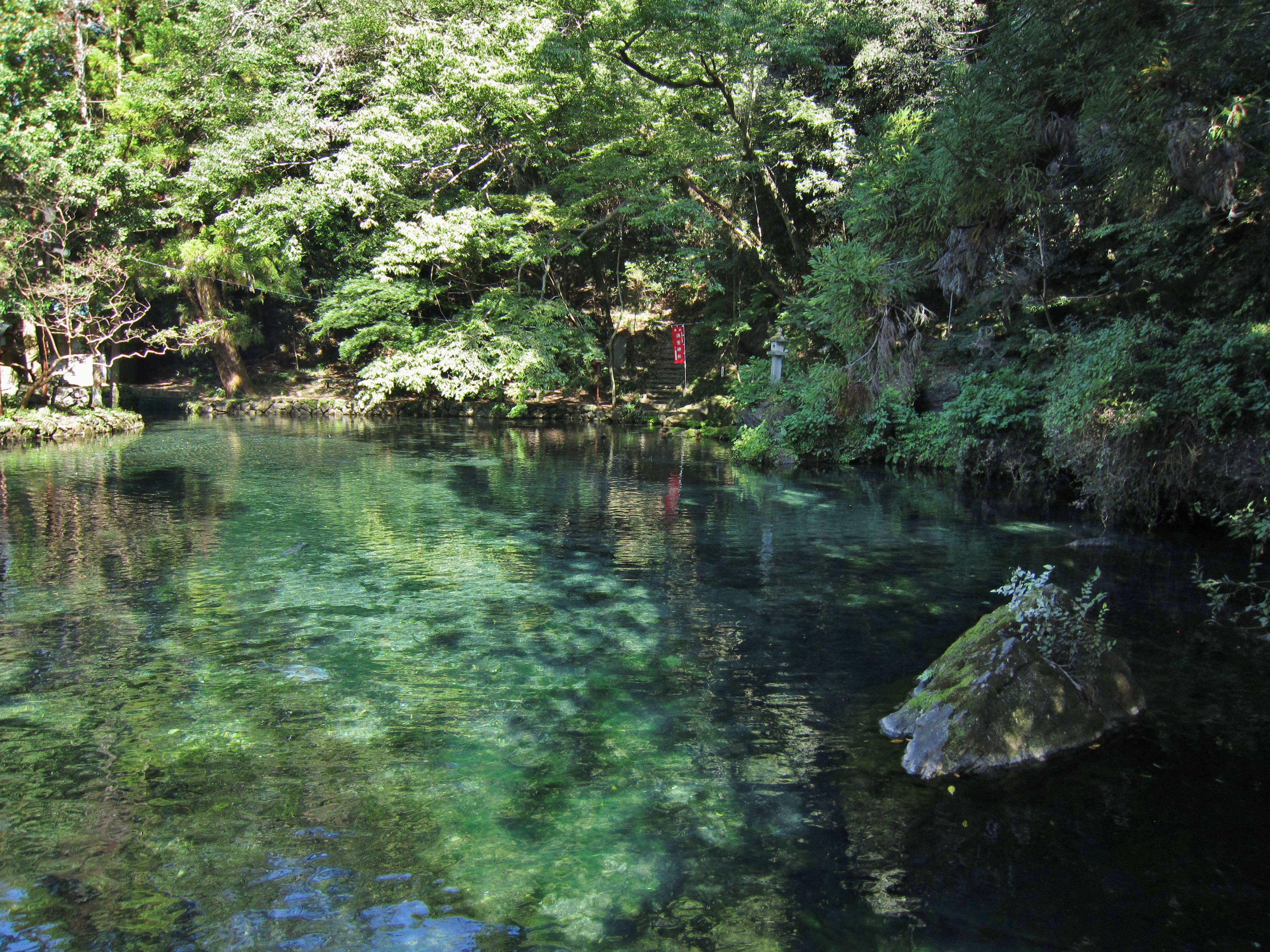 Izuruhara Benten Pond.